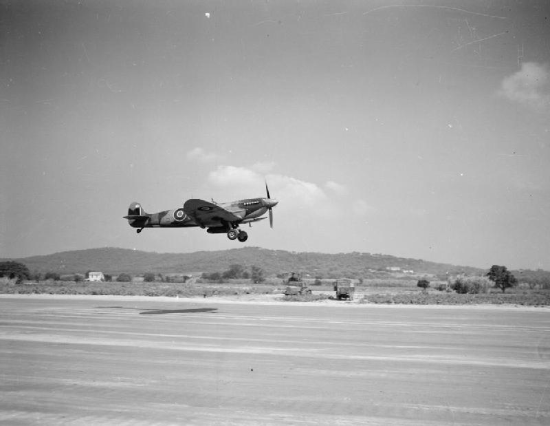 Royal Air Force Operations in Malta, Gibraltar and the Mediterranean, 1940-1945. Operation DRAGOON: the Allied invasion of southern France. Spitfire LF Mark IX, MH763 ‘RN-S’, of No, 72 Squadron RAF based at Calvi, Corsica, coming in to land at the newly-constructed landing ground at Ramatuelle in southern France, piloted by Flight Lieutenant the Prince Emanuel Galitzine.